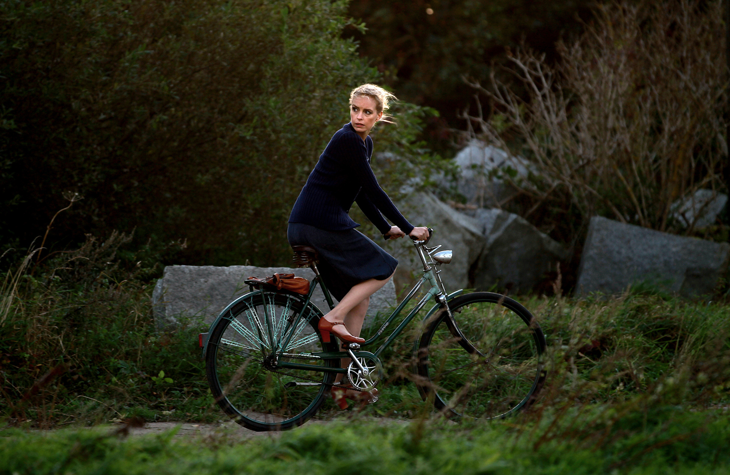 Nina Hoss in Barbara, 2012